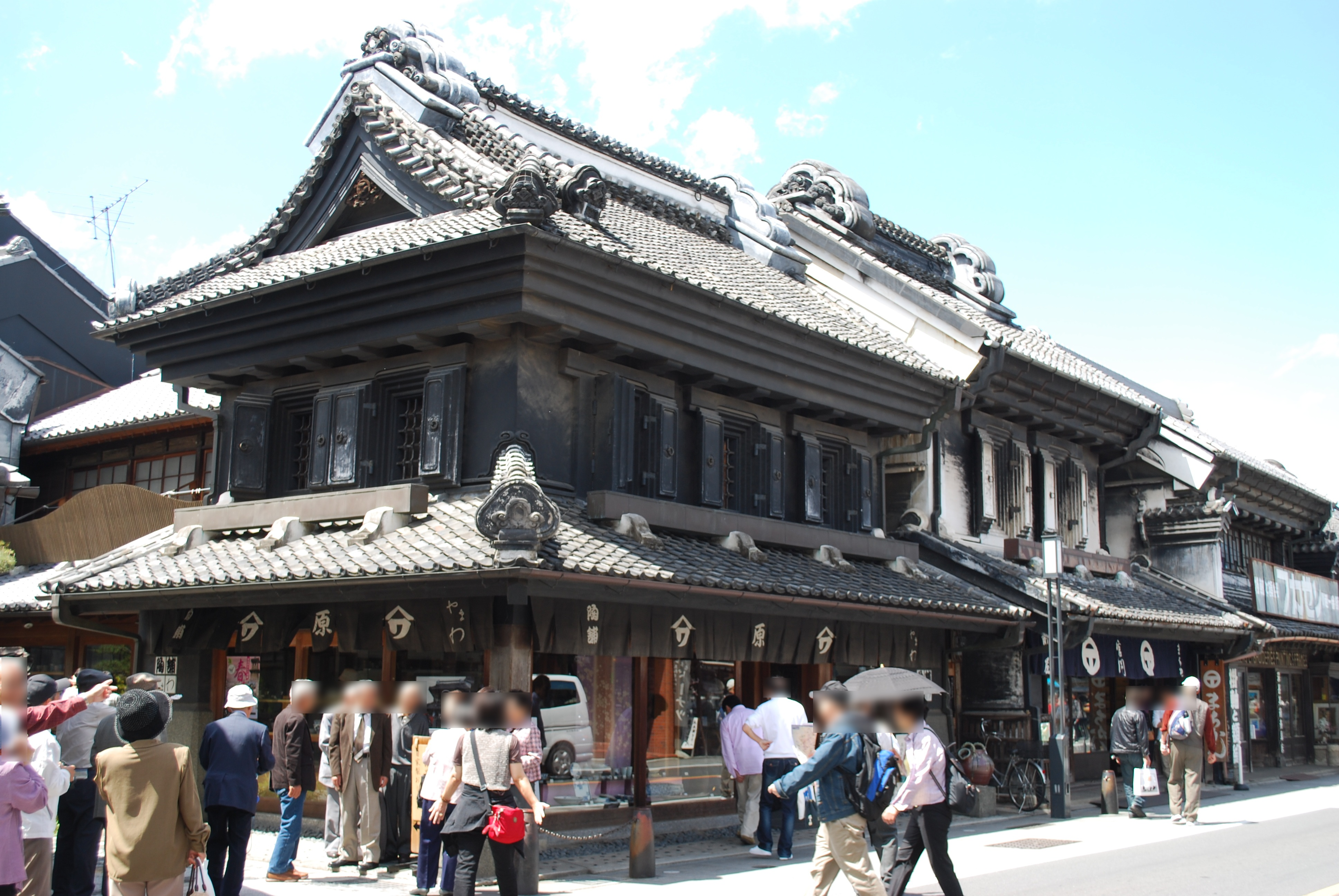 Store of the godown style,Kawagoe-city,Japan